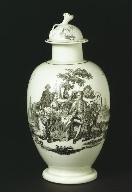 Tea canister, about 1768, Worcester porcelain factory V&A Museum no. 1448&A-1853 Techniques - Soft-paste porcelain, transfer-printed in black enamel Artist/designer - Robert Hancock born ca. 1731 - died 14/10/1817 (engraver), Worcester porcelain factory Place - Worcester, England Dimensions - Height 15.87 cm, Diameter 7.62 cm Object Type - Tea canisters, often called caddies today, were containers for storing tea leaves. During the 18th century, tea was made in front of family and guests in well-off households, not in the kitchen. Like other tea utensils, canisters were therefore often highly decorative. Initially an expensive luxury confined to the wealthy, tea became more widely drunk as prices fell during the 18th century. The gradual fall in price (before import duties were radically reduced in 1784) was reflected in the size of these containers. Worcester's canisters of this oval type, for example, became more bulbous and capacious. Subject Depicted - Tea was usually prepared by the lady of the house, with the help of a servant. The inclusion of a black servant in this scene was not only a touch of realism, but also an emblem of luxury, emphasising the cost and exotic associations of tea. Materials & Making - Worcester's raw materials included soaprock, which resulted in a type of porcelain that was resistant to the thermal shock of boiling water. Worcester's recipe was therefore suitable for tea and coffee wares. Trading - Worcester sold much of its output through wholesale warehouses in London. However, it also disposed of some wares, including 'jet enamelled' wares of this type, through auctions attended by private buyers and merchants. In 1769 a 43-piece 'jet enamelled' tea service realized £1 16s at auction.